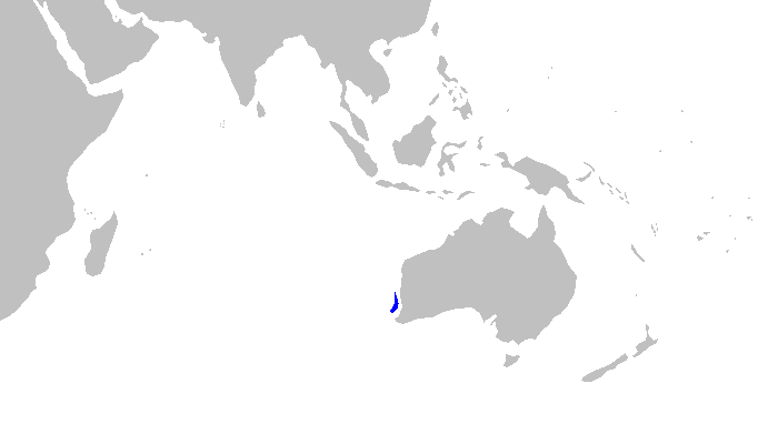 Distribution map for Parascyllium sparsimaculatum